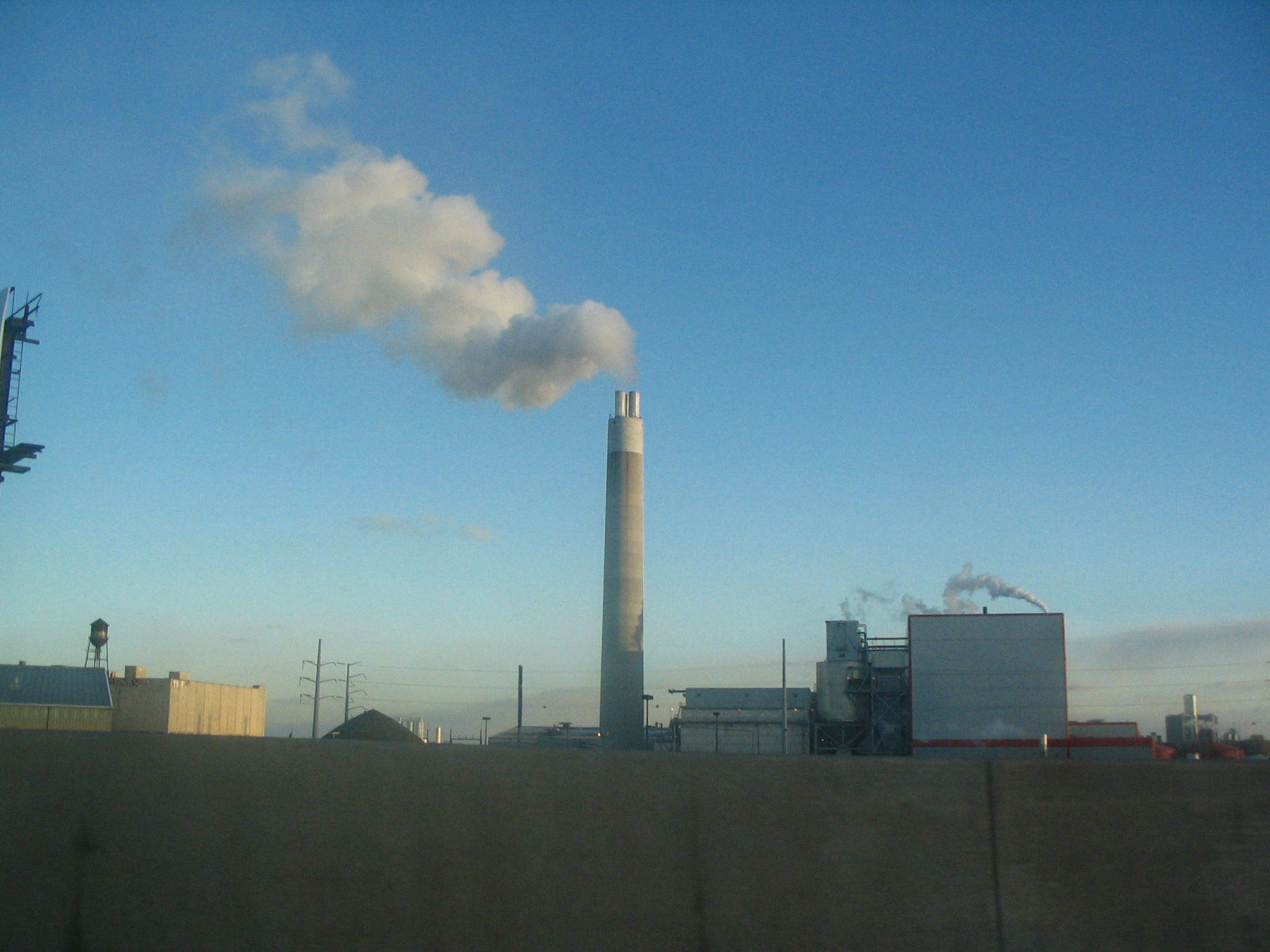 Smokestack of Greater Detroit Resource Recovery Facility (waste-to-energy plant).